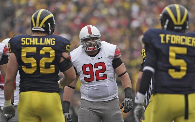 Stephen Schilling lines up across from Todd Denlinger